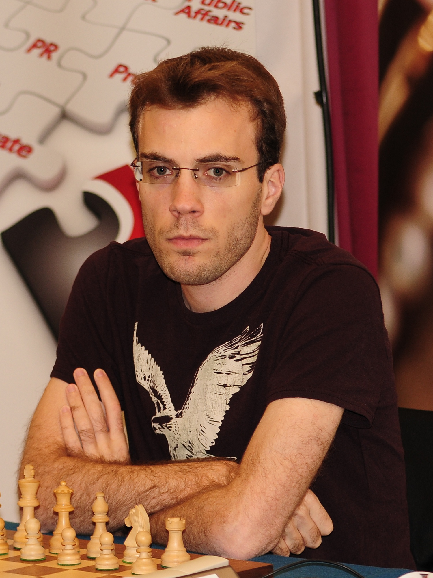 GM Georg Meier, European Chess Team Championship Warsaw 2013